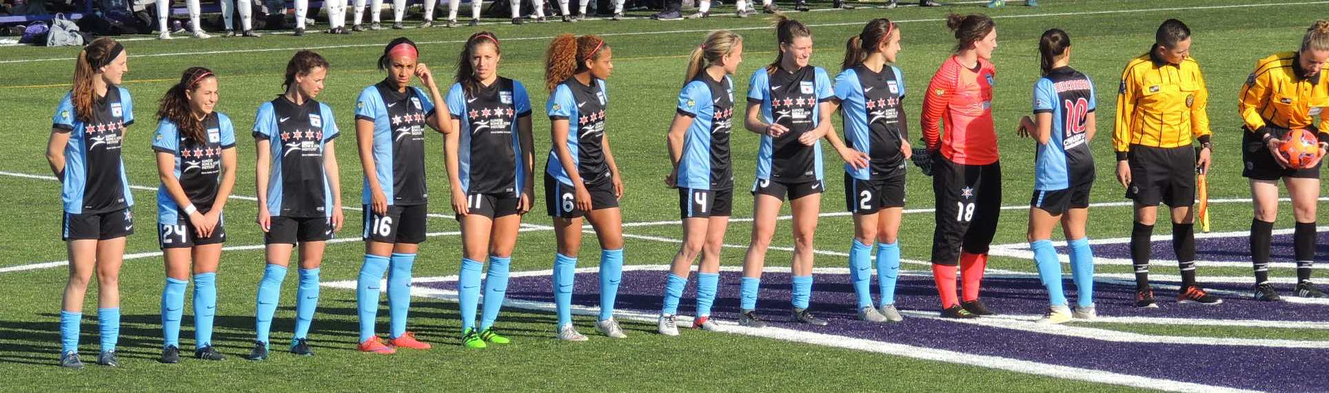 April 3 2016 Chicago Red Stars preseason lineup